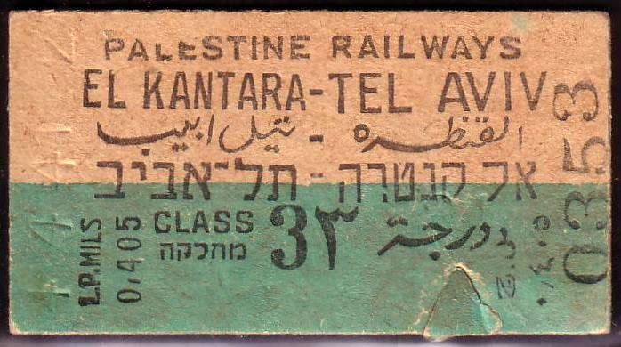 A Palestine Railways ticket from El Kantara (Egypt) to Tel Aviv, 1941